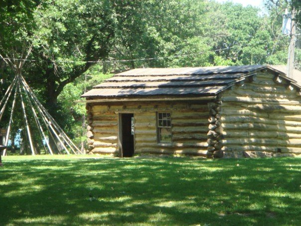 Photo of the Cabin at the Spirit Lake memorial site. Taken July 1, 2007, by me.